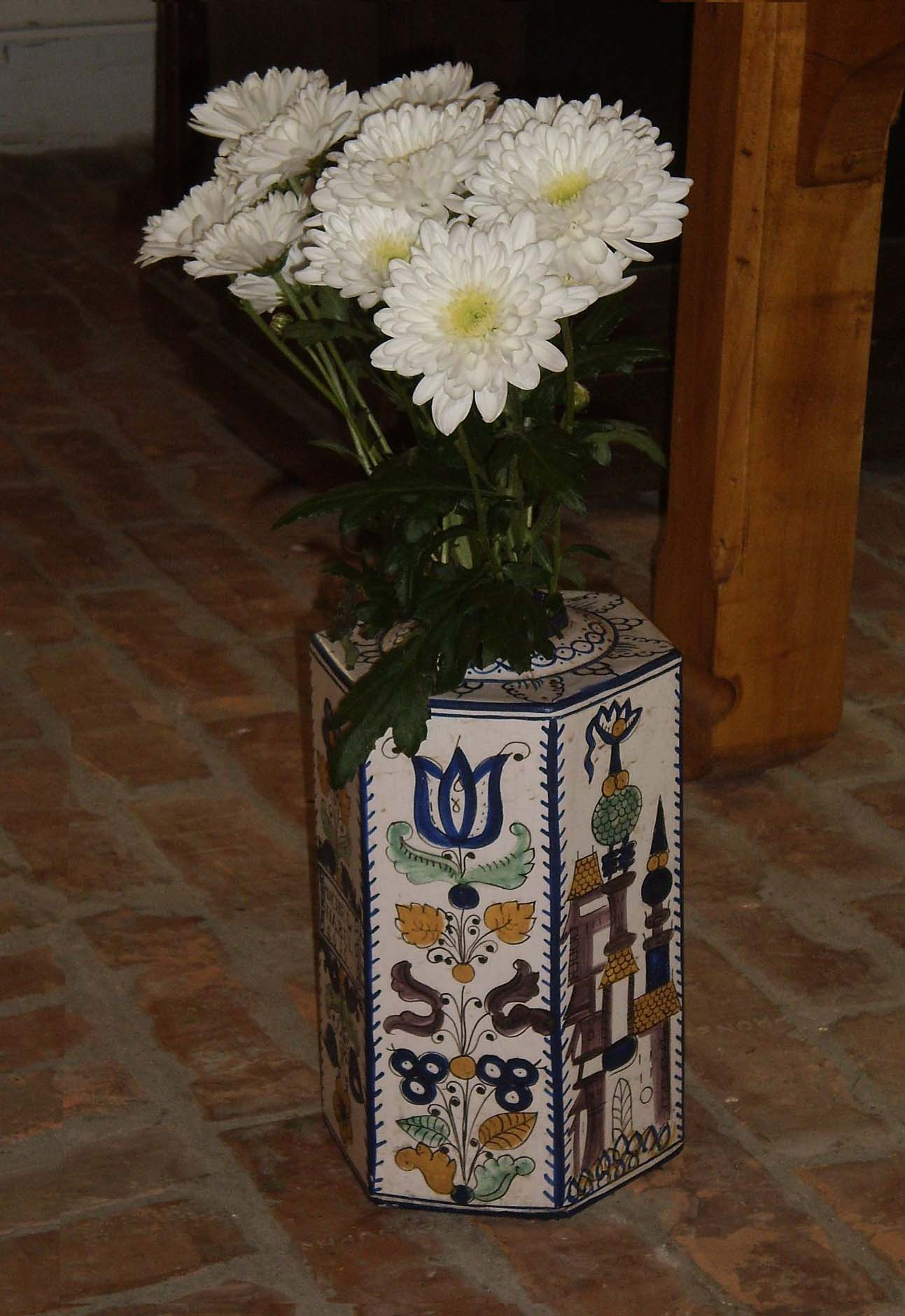 Haban majolica vase in the baptist chapel, Neszmély, Hungary